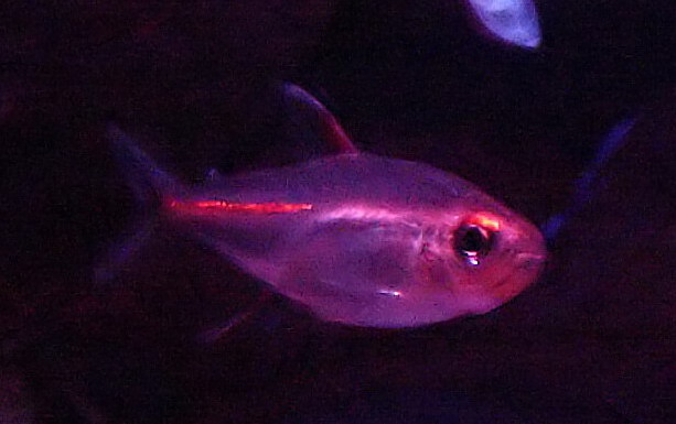 Hemigrammus erythrozonus, Glowlight tetra